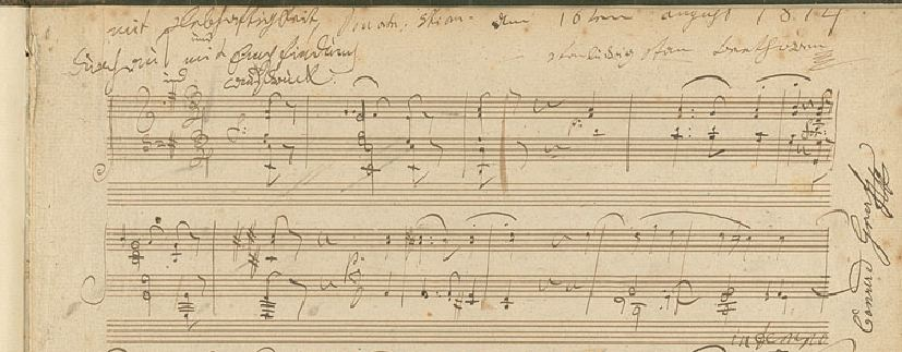 Opening bars of Beethoven's Piano Sonata in E minor, Op. 90, composer's manuscript